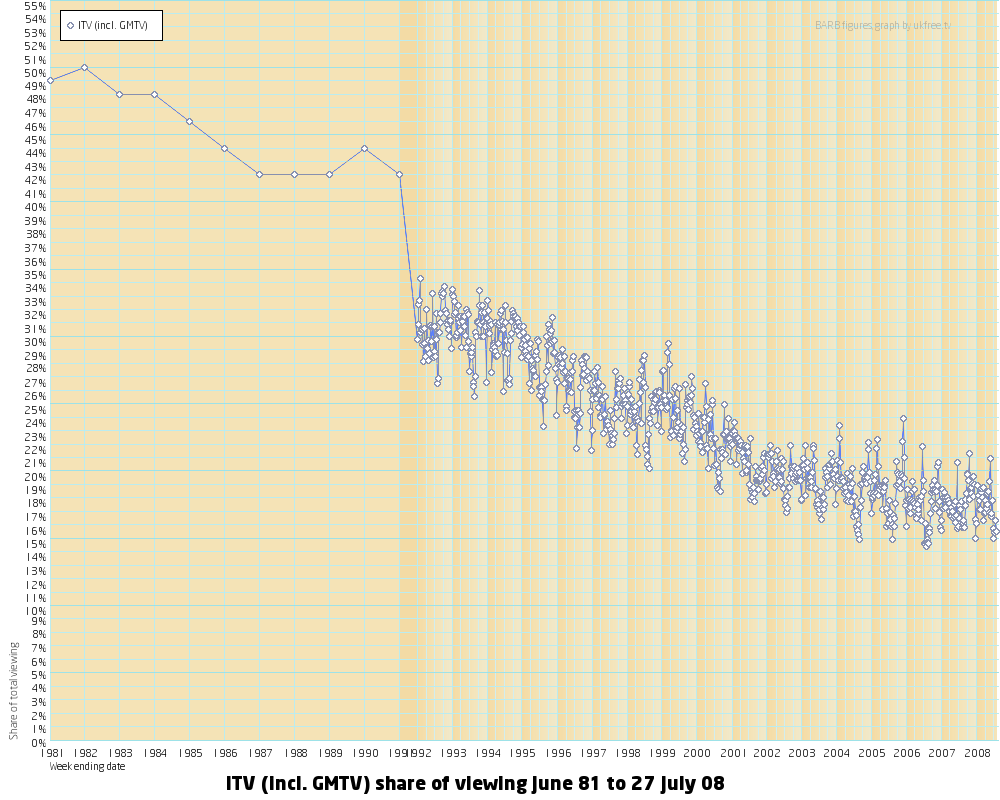 ITV1 share of viewing 1992-2007 from BARB figures